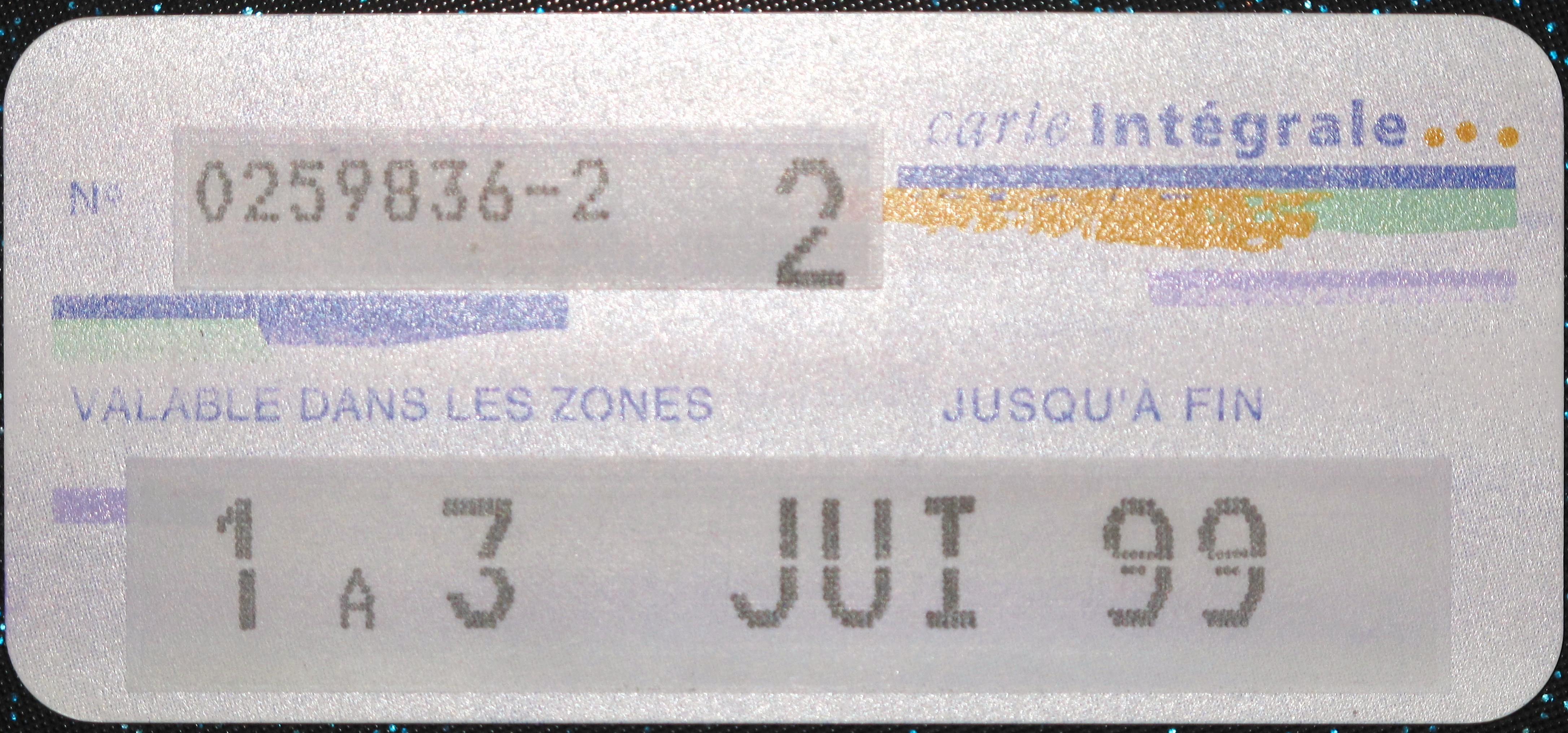 Magnetic ticket of the "carte intégrale" for transport in Paris and suburb.